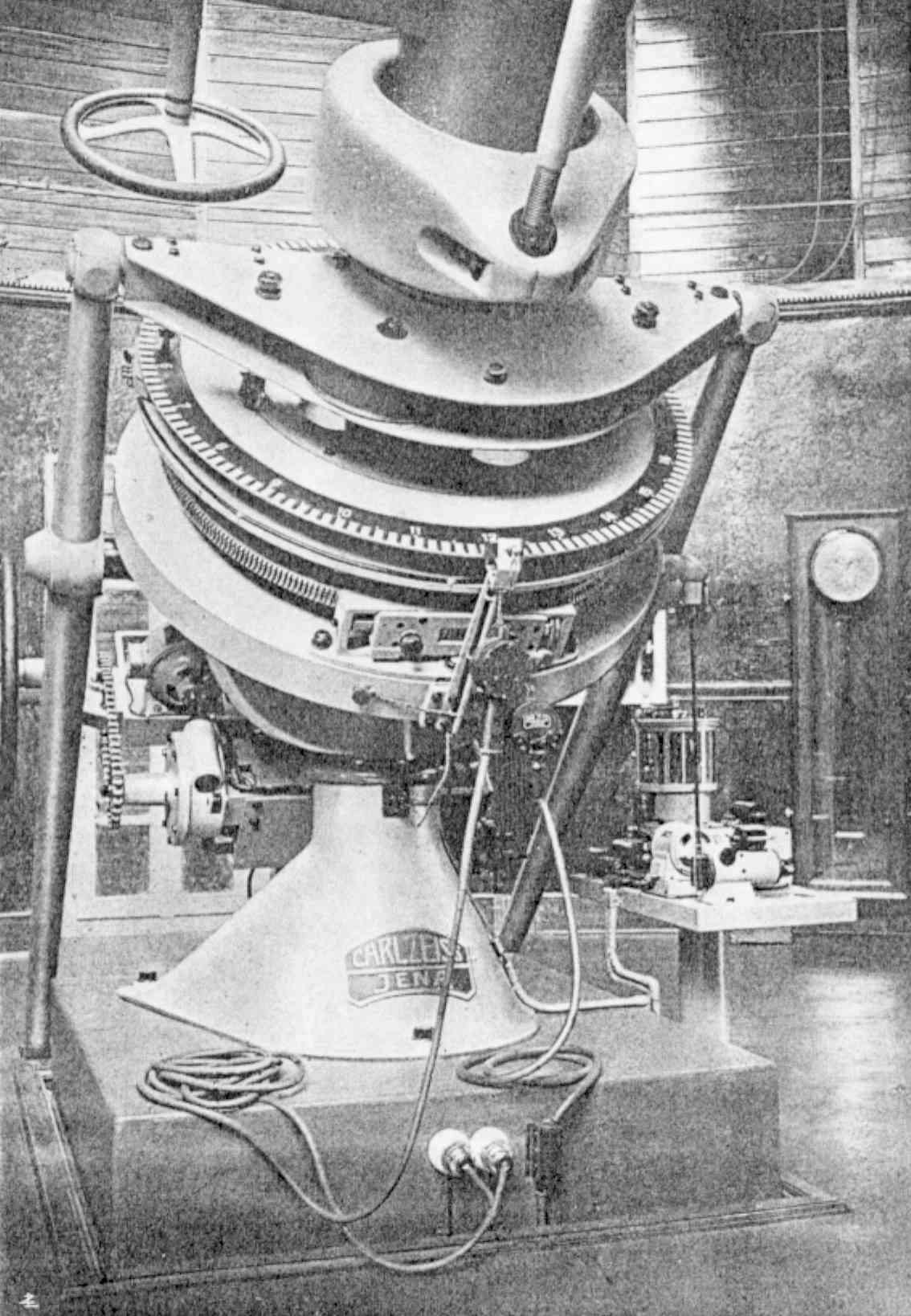 1 meter Zeiss telescope at Merate Astronomical Observatory, Merate (LC), Italy. Mounting of the right ascension axis.